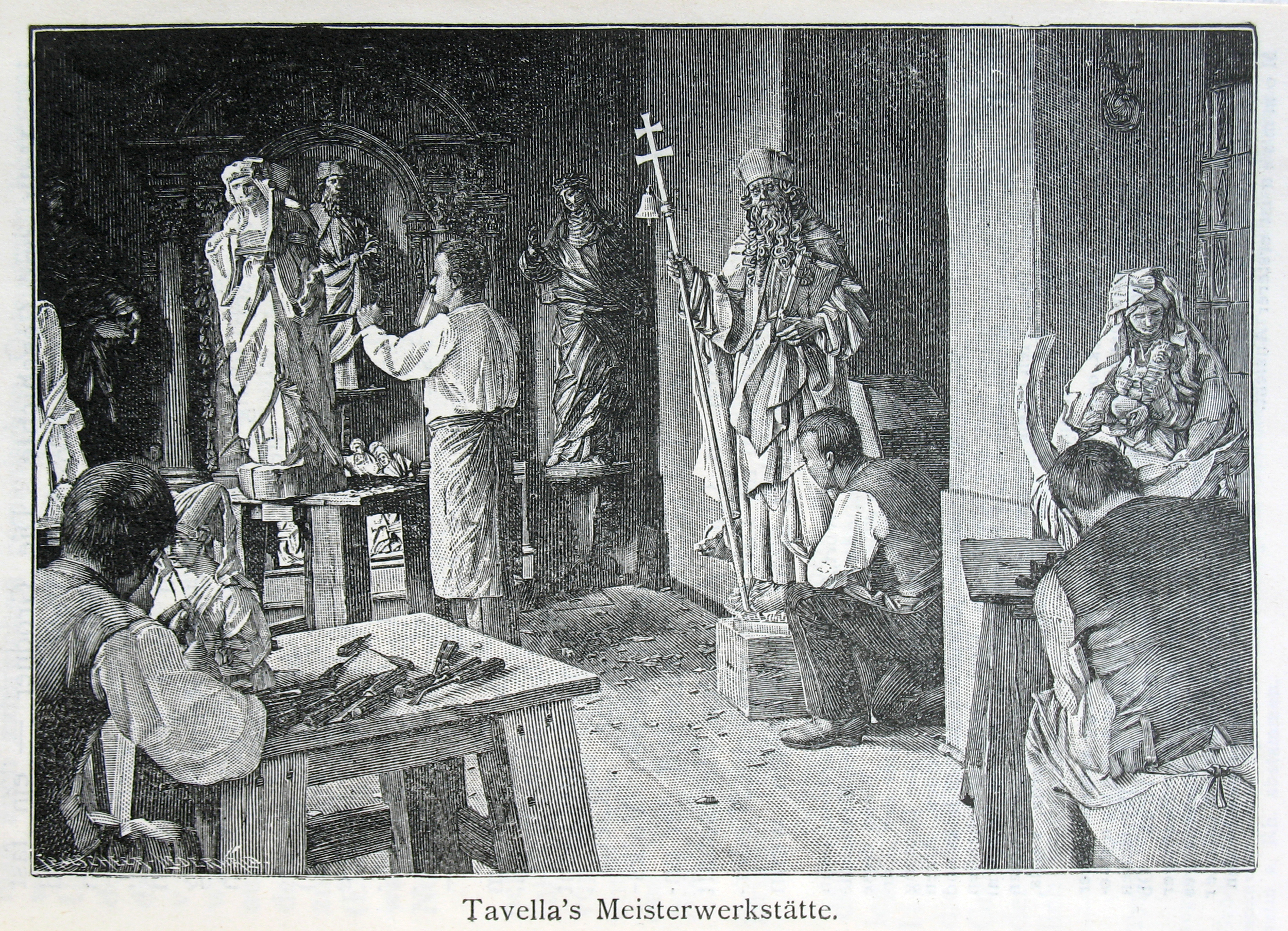 The workshop of Franz Tavella. Woodcut published in the Val Gardena Tourguide of Wilhelm Moroder-Lusenberg.